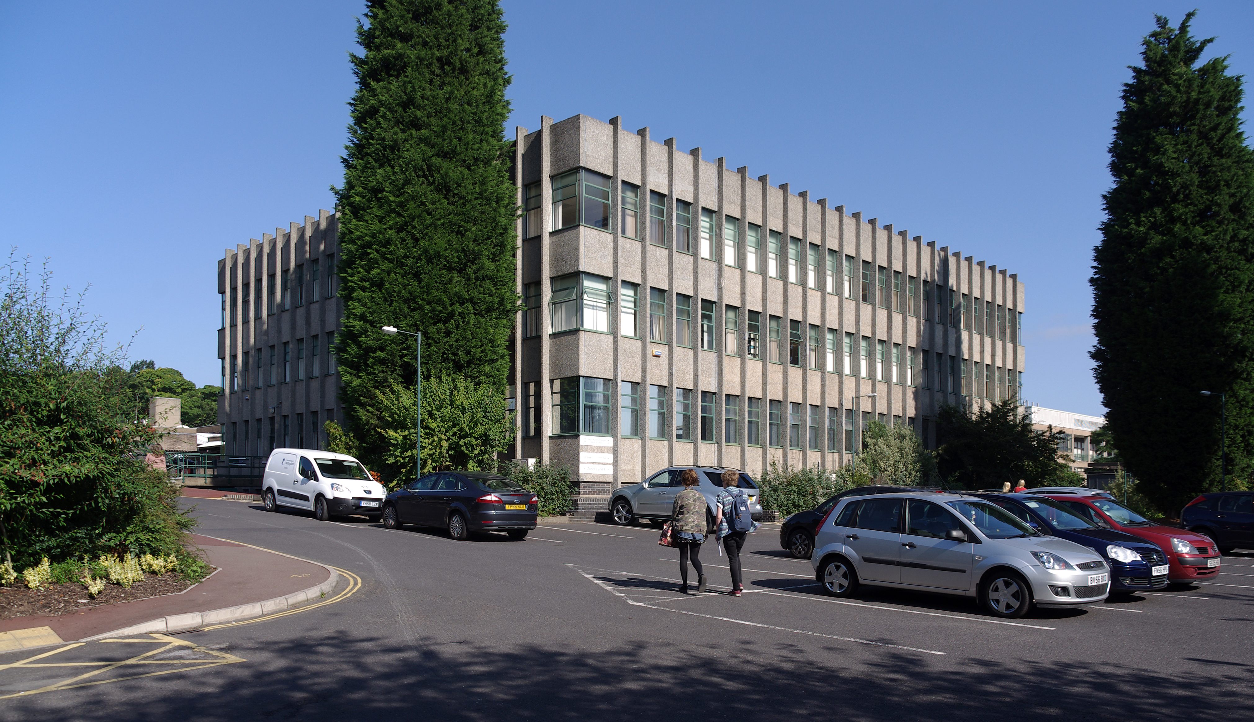 The George Green Library on University Park at the University of Nottingham.